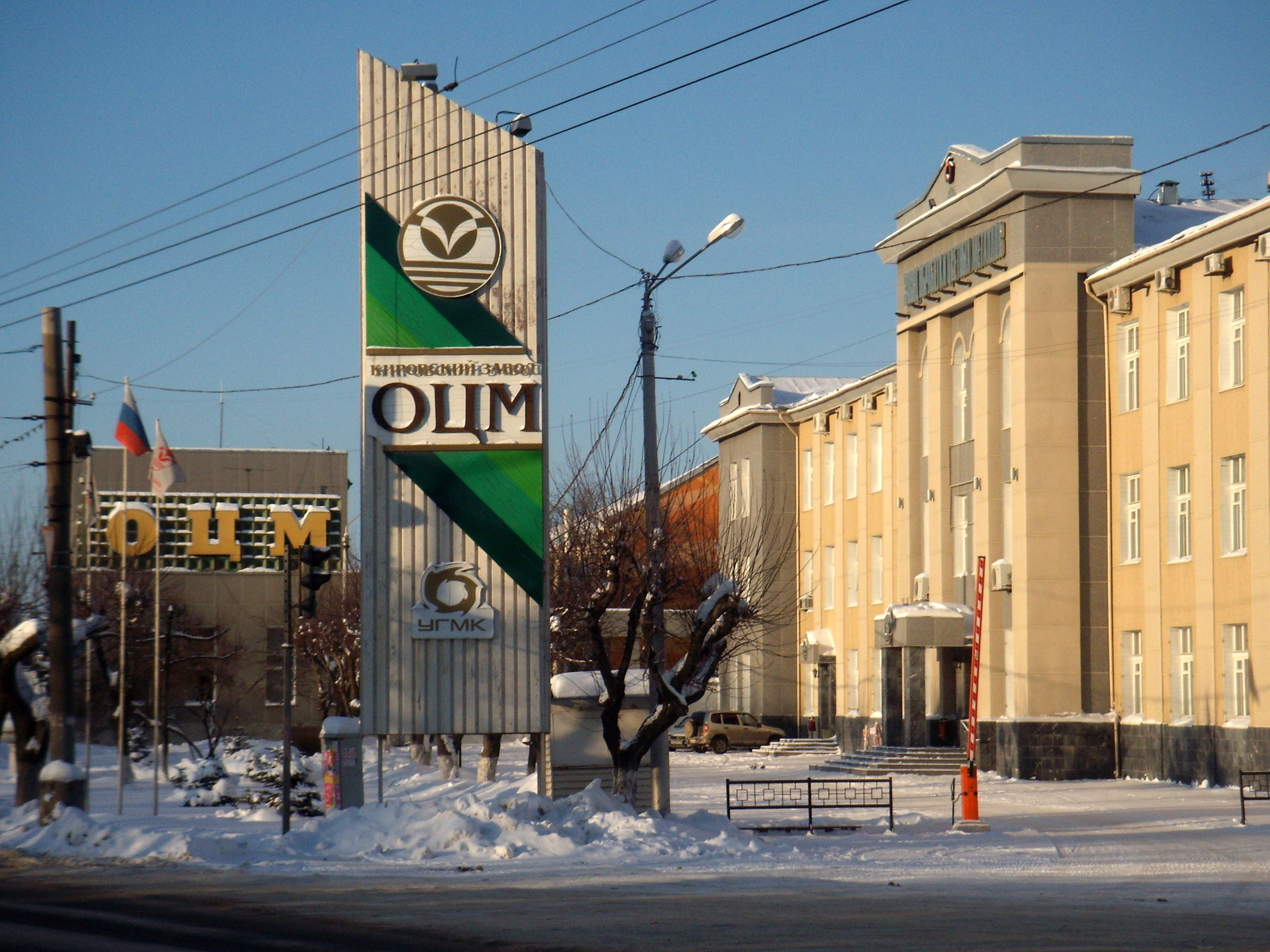 Signboard in front of the factory «OCM», Kirov